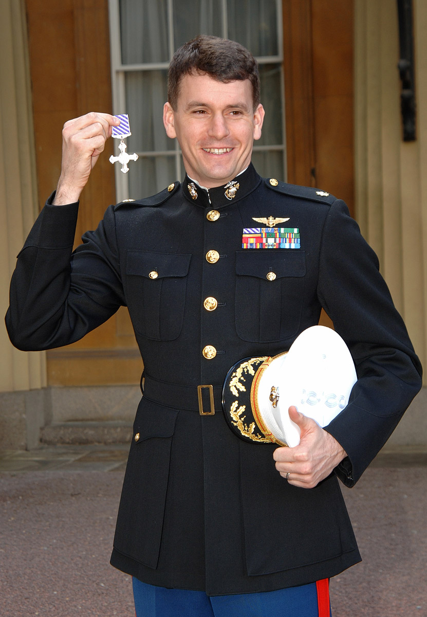 William Chesarek, after receiving the Distinguished Flying Cross from Queen Elizabeth II at Buckingham Palace